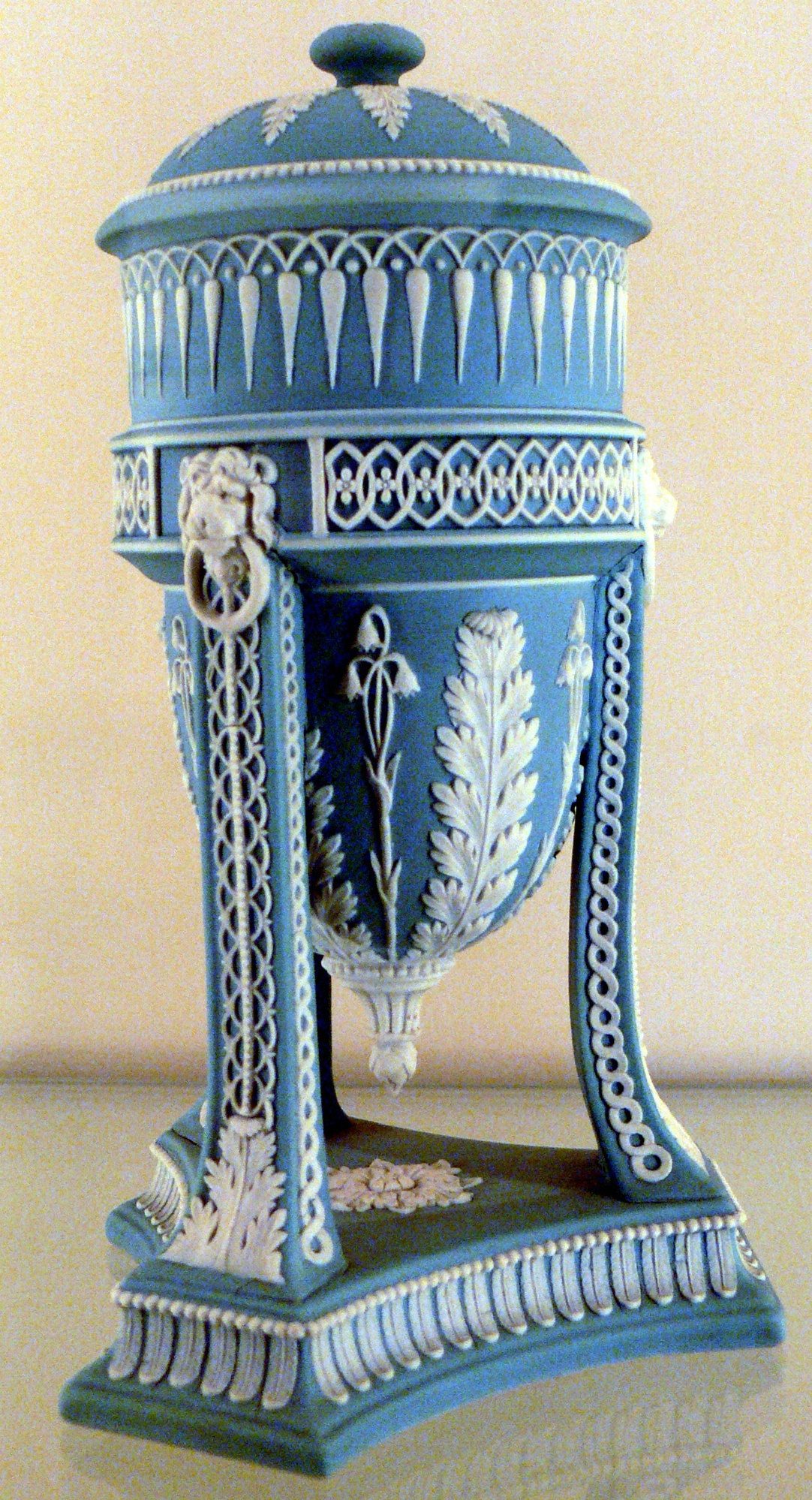 The Philbrook Museum of Art. European Collection: French urn with lid ( 1820 ), Wedgewood porcelain